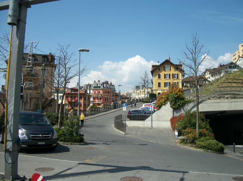 Montreux town, closer to the railway station